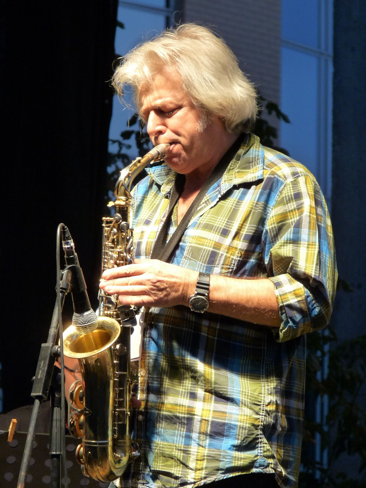 Tamás Somló (1947– ) Hungarian singer, musician and melody writer, on the Day of Hungarian Song in 2009.